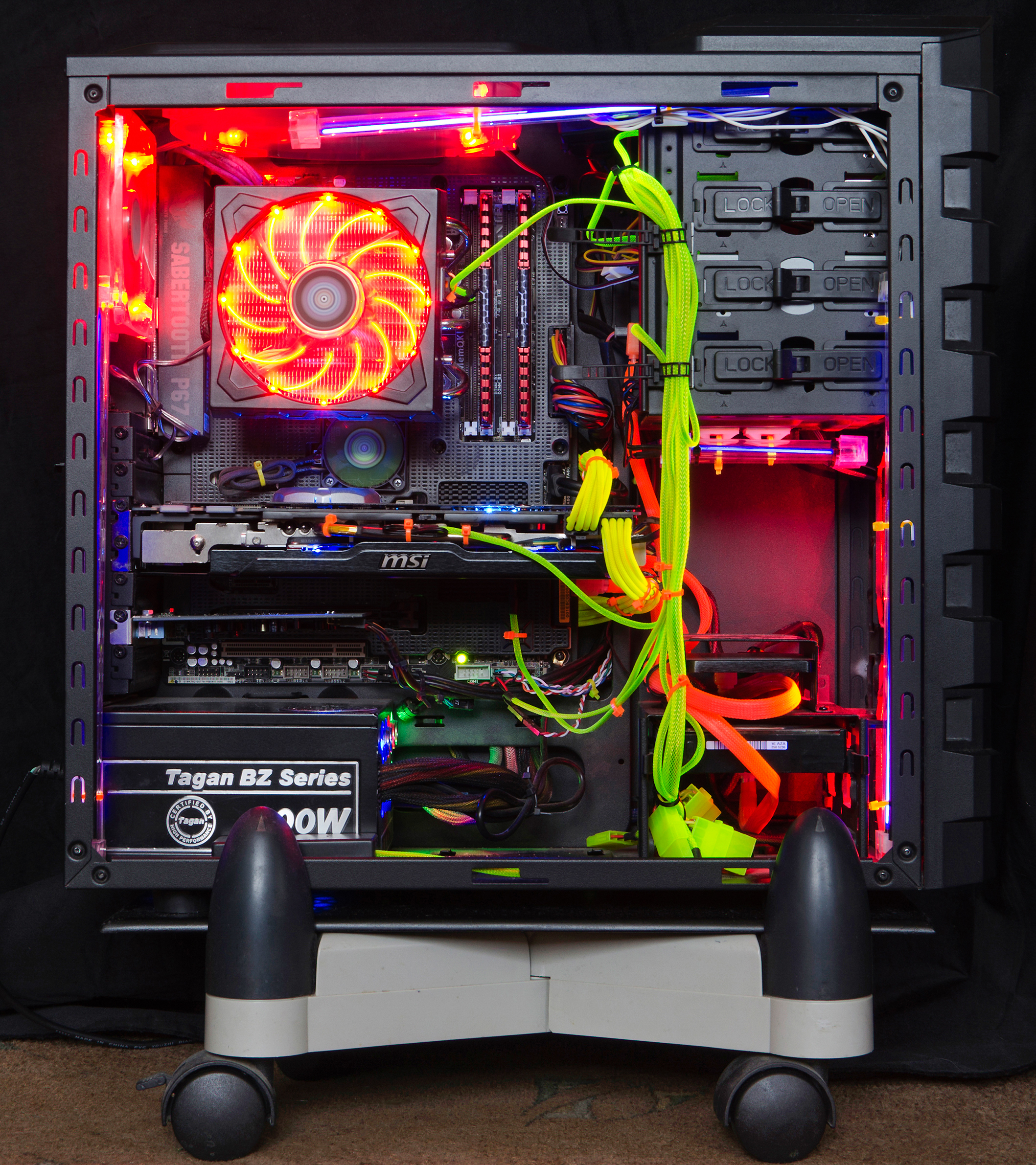 Computer modding, wires reacting in UV light